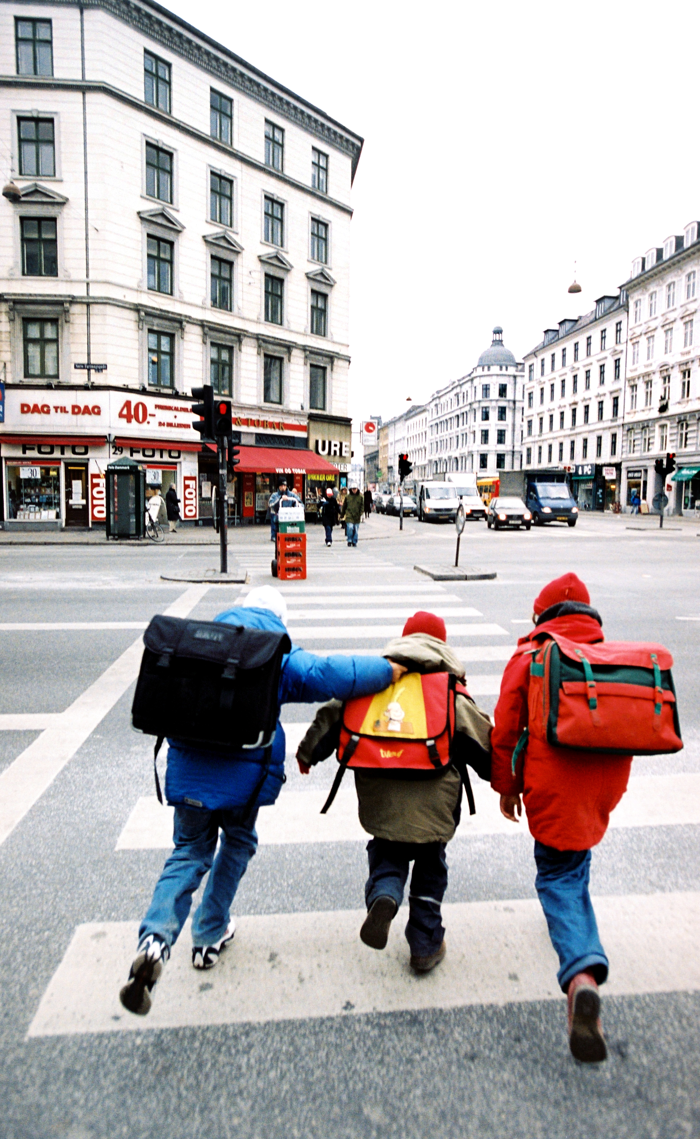 Skolebarn, København Keywords: Children and Young Adults, Education, Denmark